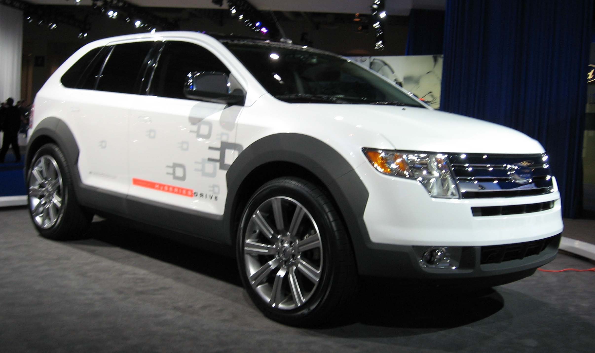 Ford Edge plug-in hydrogen hybrid photographed at the Washington Auto Show.